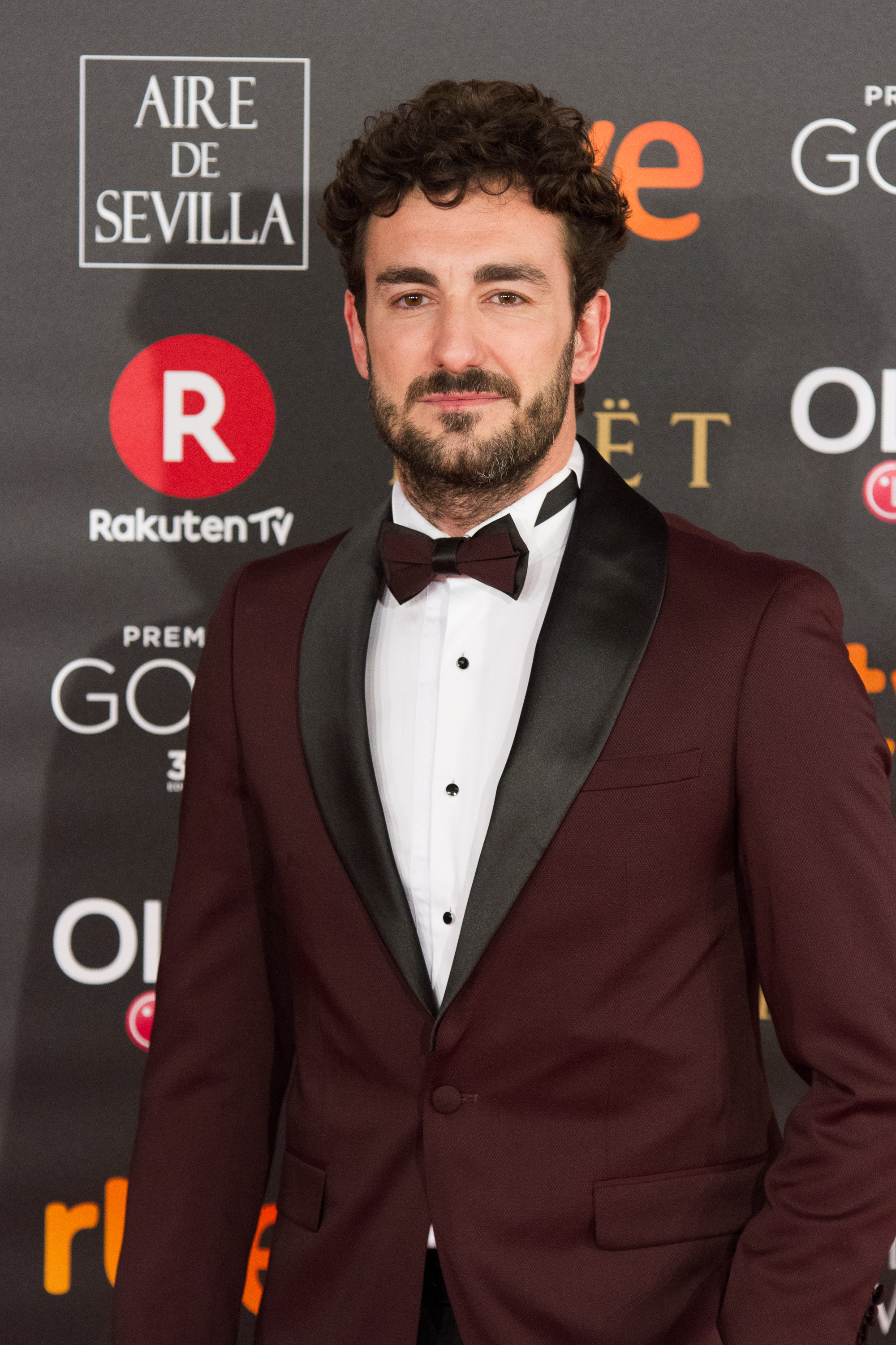 32nd Goya Awards, 2018.